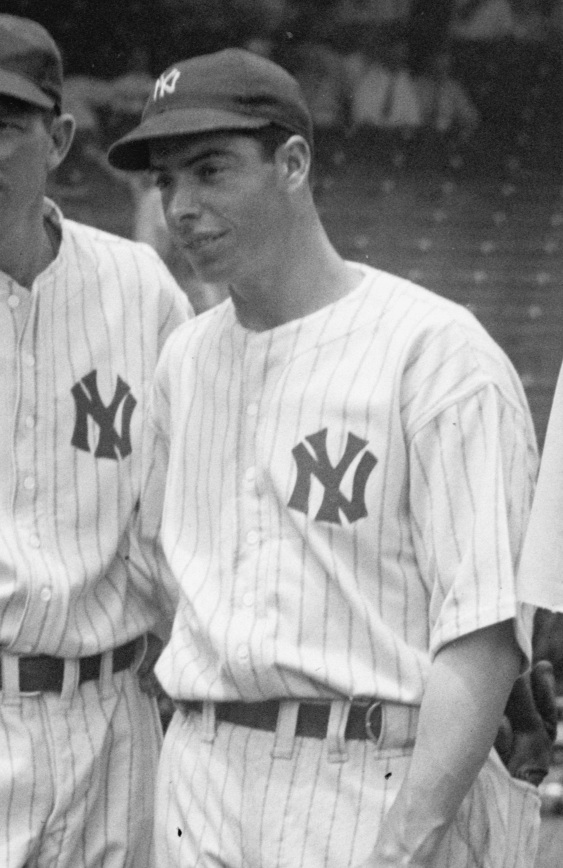 Joe DiMaggio of the New York Yankees, cropped from a posed picture of 1937 Major League Baseball All-Stars in Washington, DC.